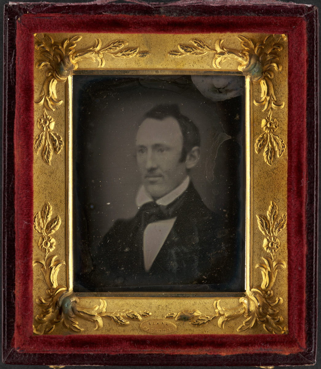 Daguerreotype photograph of Wendell Phillips by Richard Beard. Dimensions (in case): 9.5 × 8.5 cm (3.7 × 3.3 in). Original description by Boston Public Library:BPLDC no.: 07_05_000019 Call no.: Cab.G.3.97 Title: Wendell Phillips Creator: Beard, Richard, 1801 or 1802-1885 Date: 1841 (approximate) Publisher: London : Richard Beard Extent: 1 photograph : oversized ninth plate daguerreotype ; in case 9.5 x 8.5 cm. Genre: Daguerreotypes; Portraits Notes: Subjects: Abolitionists Phillips, Wendell, 1811-1884 BPL Department: Rare Books Department